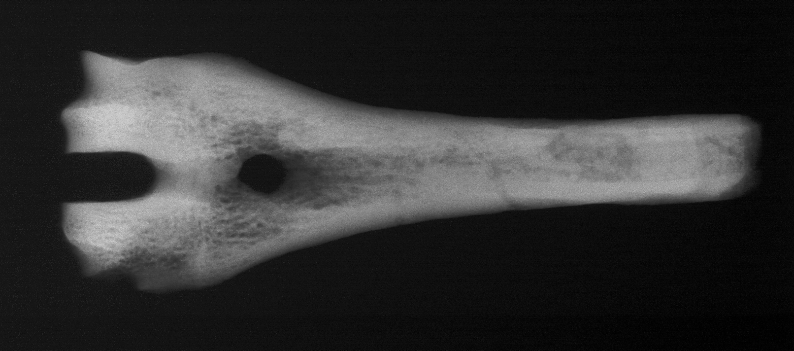 Own photograph, copyright by me.